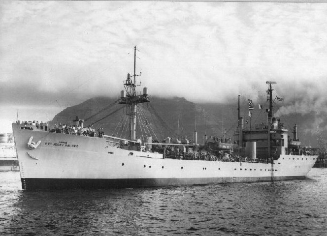 image of the ship Pvt Jose F Valdez